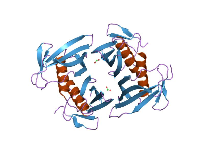 Cartoon representation of the molecular structure of protein registered with 1tbu code.